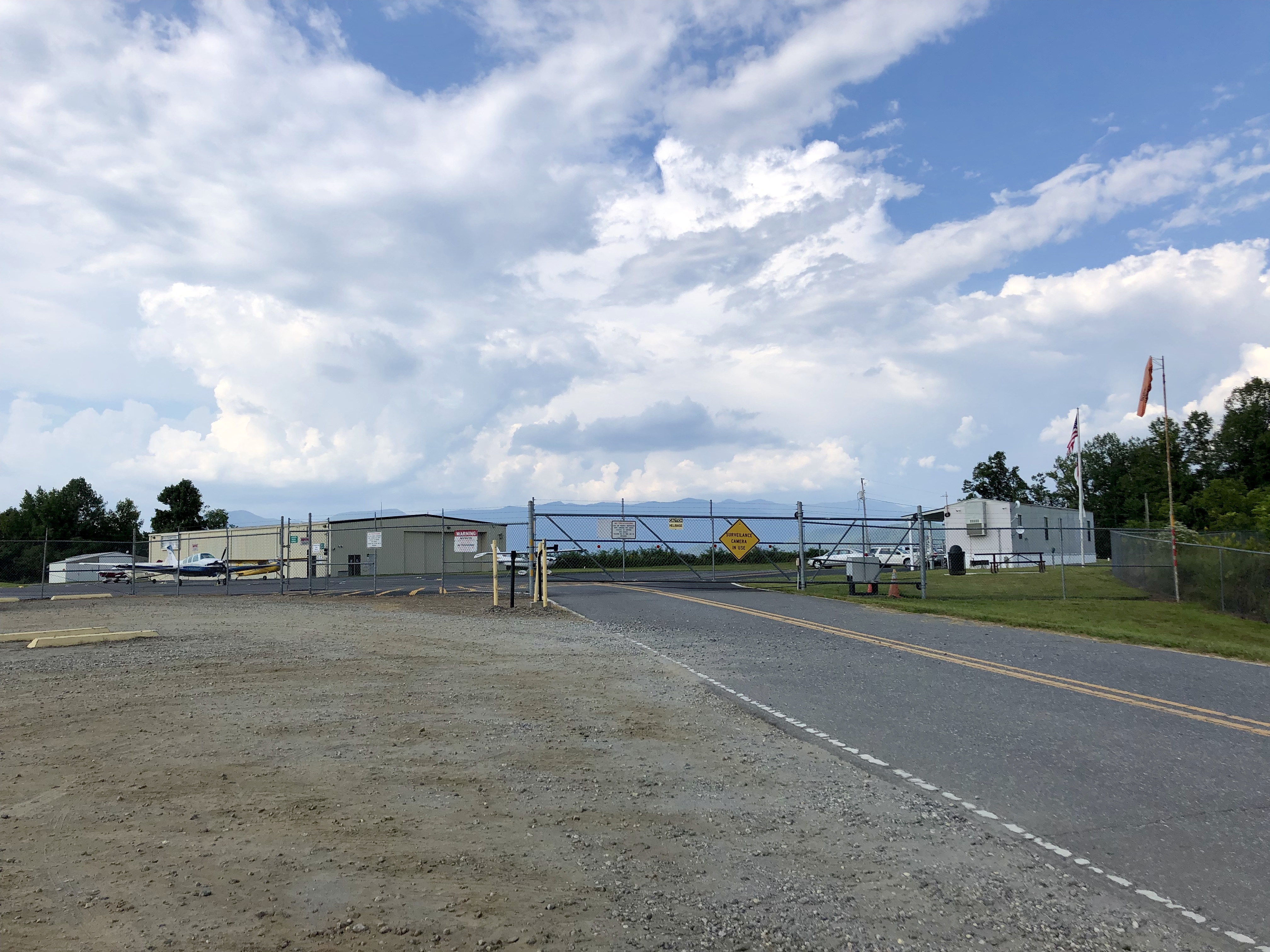 This is a view of the Jackson County Airport in Cullowhee, North Carolina, as seen from the gravel parking lot outside the security gate on Airport Road. The Airport dates to the 1970s and sits atop a mountain ridge above Cullowhee.